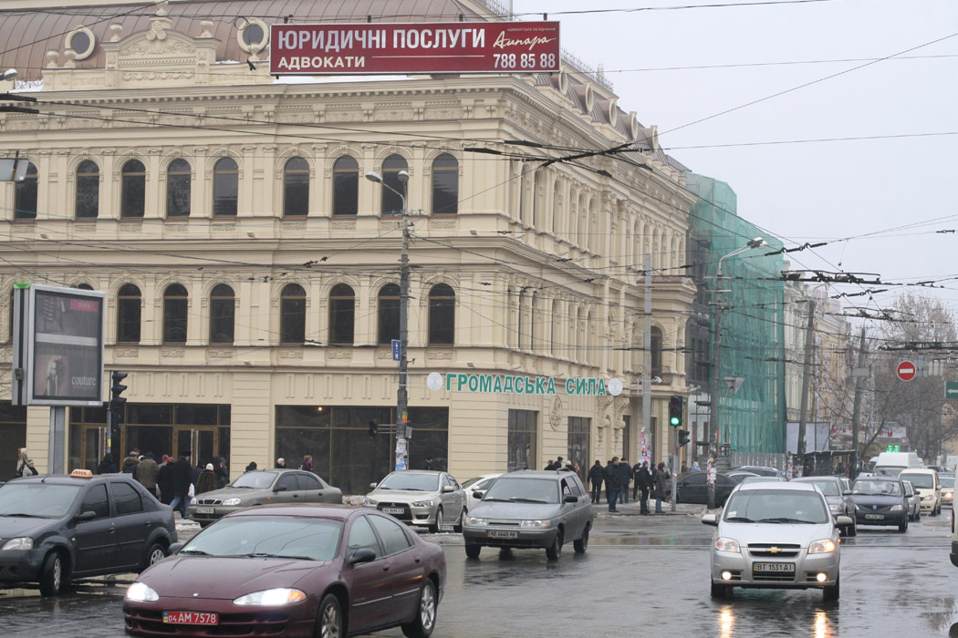 An intersection Yavornyts`kogo Avenue with Volodymyra Monomakha street, Dnipro, Ukraine